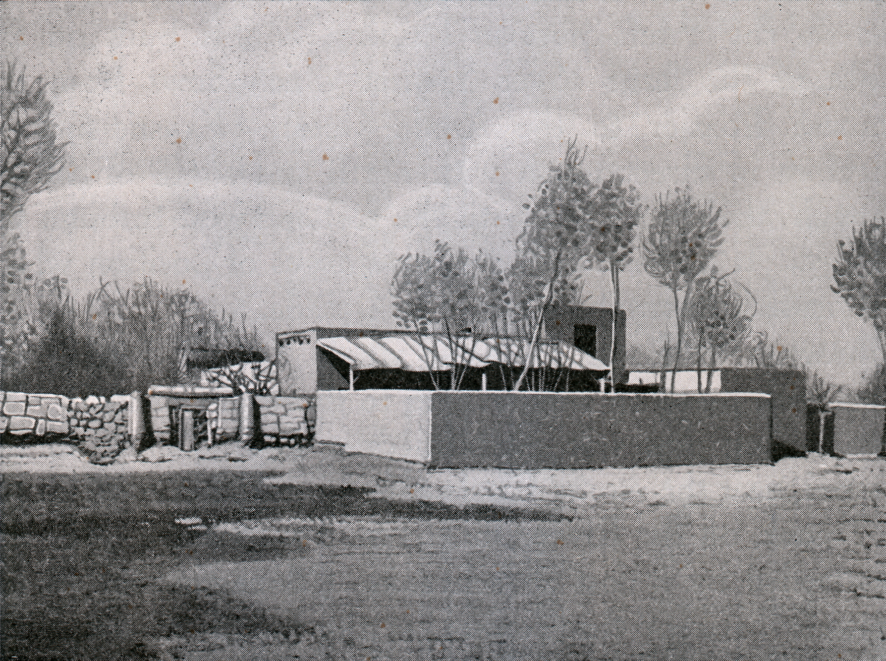 Revillon Frères "Zavode" in Boukhara (1905).